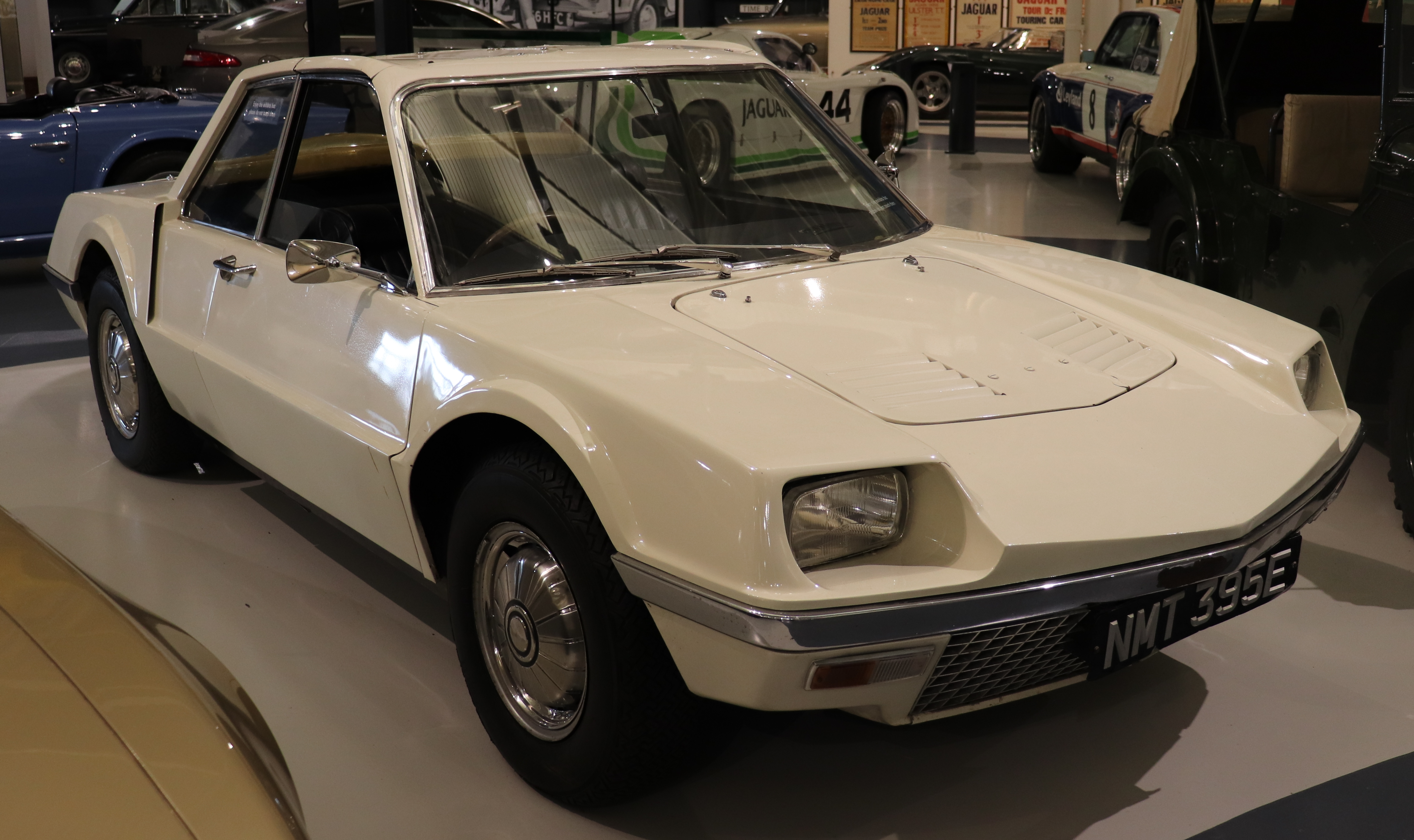 1967 Rover-Alvis P6BS Prototype 3.5 Front Taken at the British Motor Museum, Gaydon